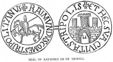 Drawing of Raymond III of Tripoli's seal